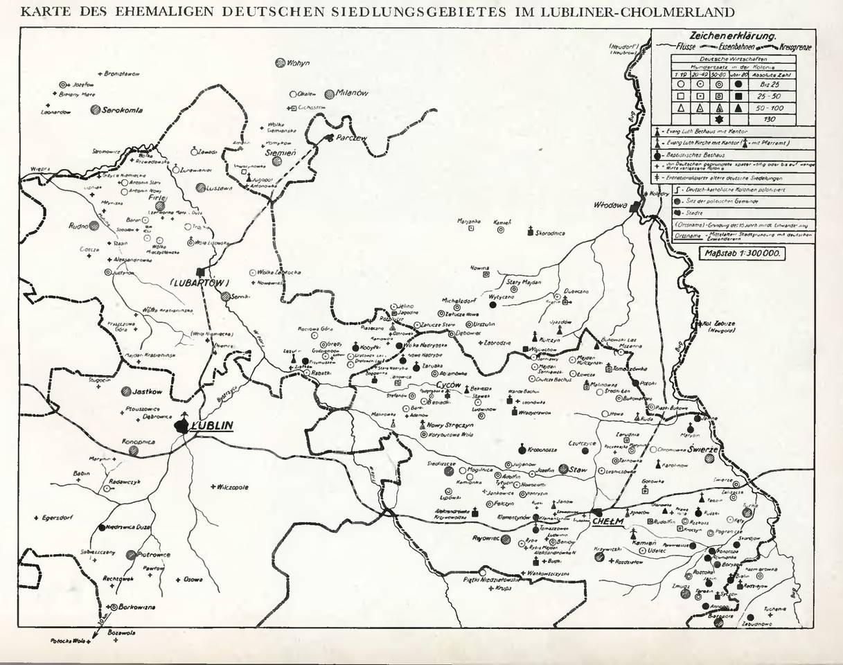 German Settlements in Lublin-Chełm area by Kurt Lück